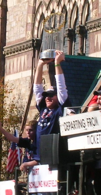 Curt Schilling hoisting the Commissioner's Trophy during the Red Sox World Series Parade through the streets of Boston.